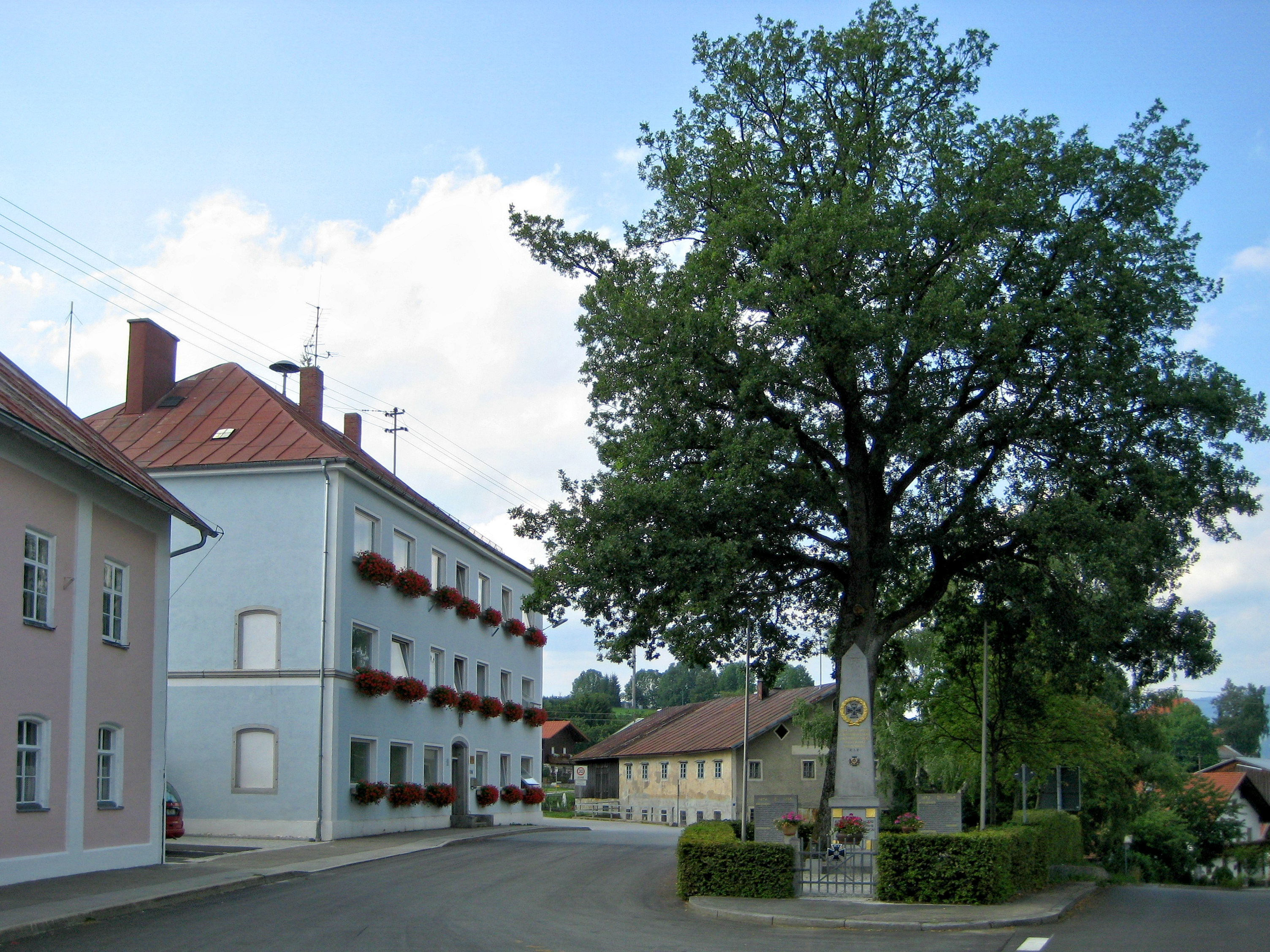 Town hall of Breitenberg, Lower Bavaria